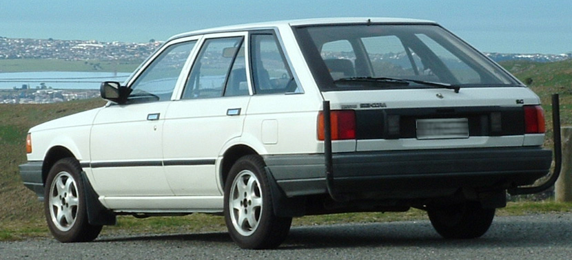 Took photo myself, 26th September 2004, Christchurch, New Zealand, photo shows Nissan Sentra B12 Wagon.